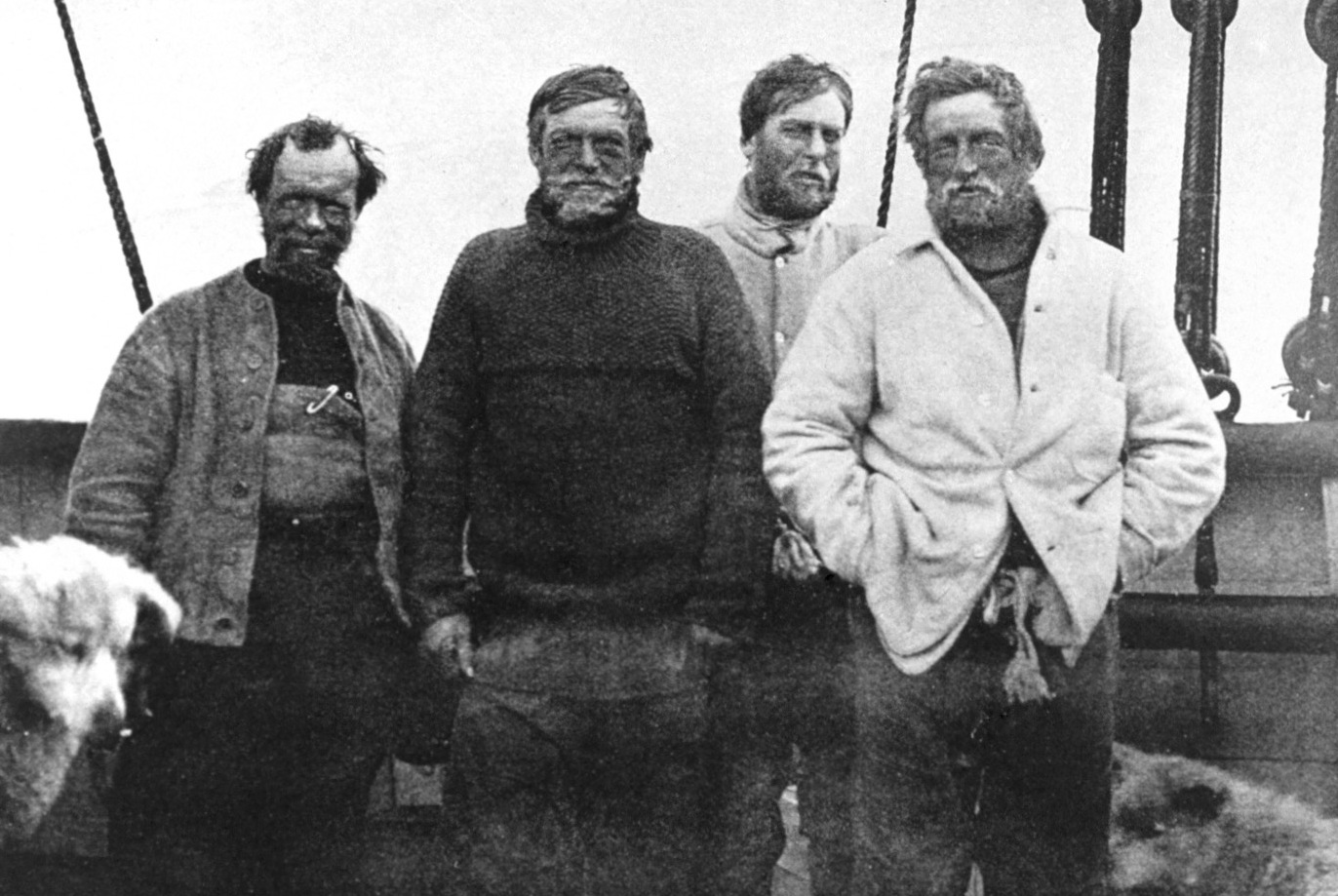 Nimrod Expedition South Pole Party (left to right): Wild, Shackleton, Marshall and Adams. The four members of the party that set out to attempt to become the first to reach the South pole, they were defeated by the weather, but also a lack of supplies and suitable equipment just 97 miles from the South Pole, a point they reached on January the 9th 1909. Ernest Shackleton (1874-1922) British Imperial Antarctic Expedition "Nimrod - Expedition", 1907 -1909